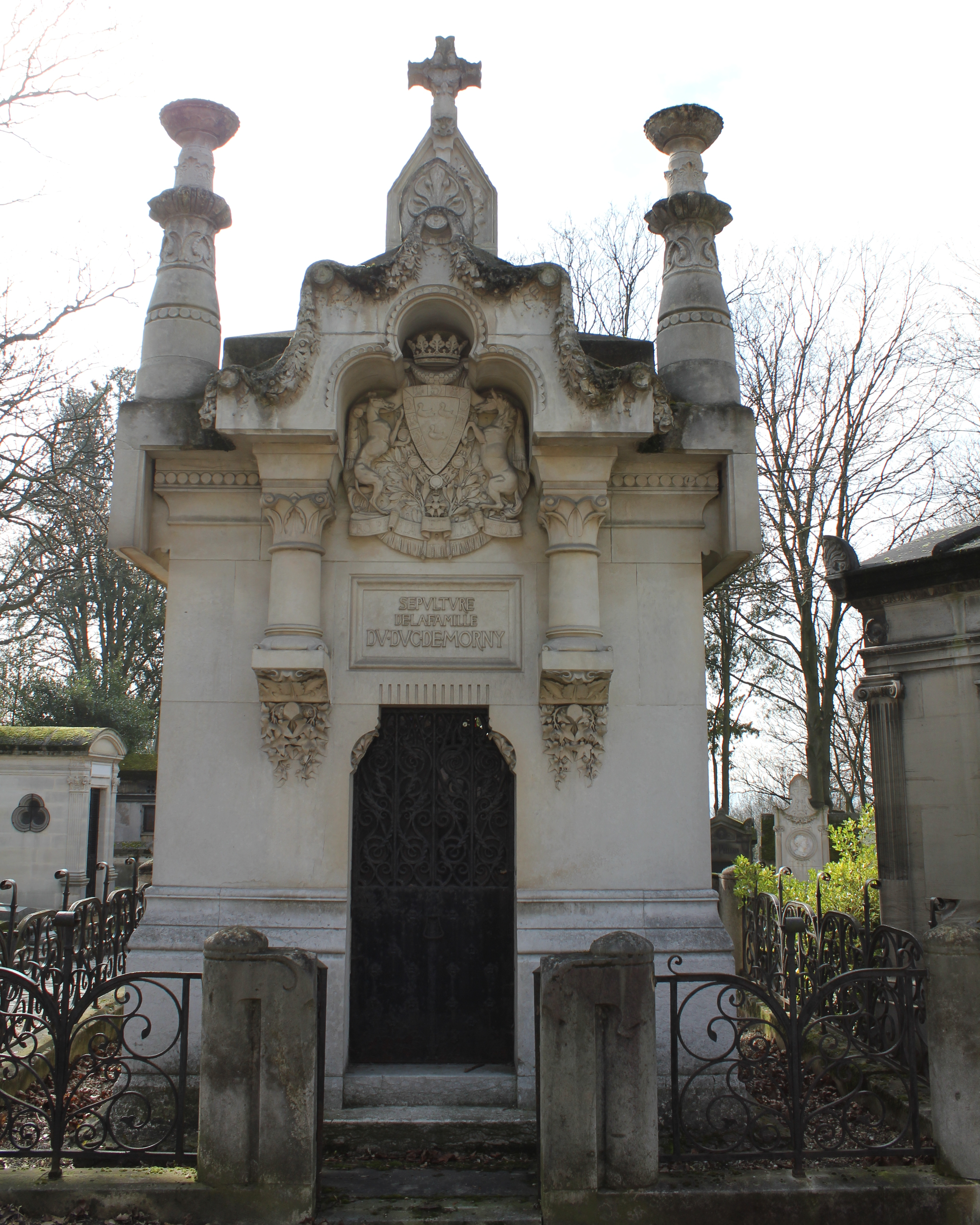 Charles de Morny's tombstone in Père Lachaise Cemetery, in Paris.